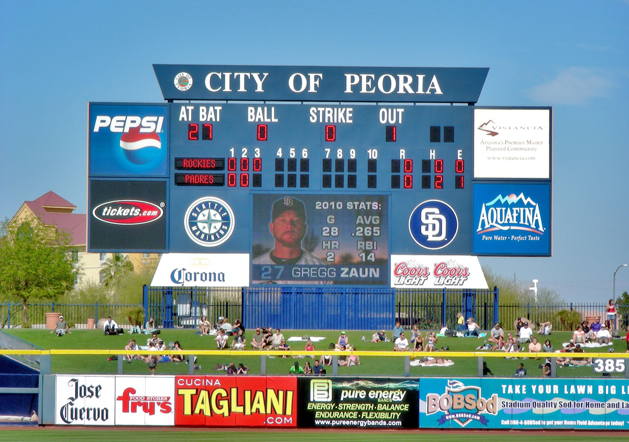 The Peoria Sports Complex is a multi-use sports facility located in Peoria, Arizona. The complex hosts the Seattle Mariners and San Diego Padres for the Cactus League Spring Training.